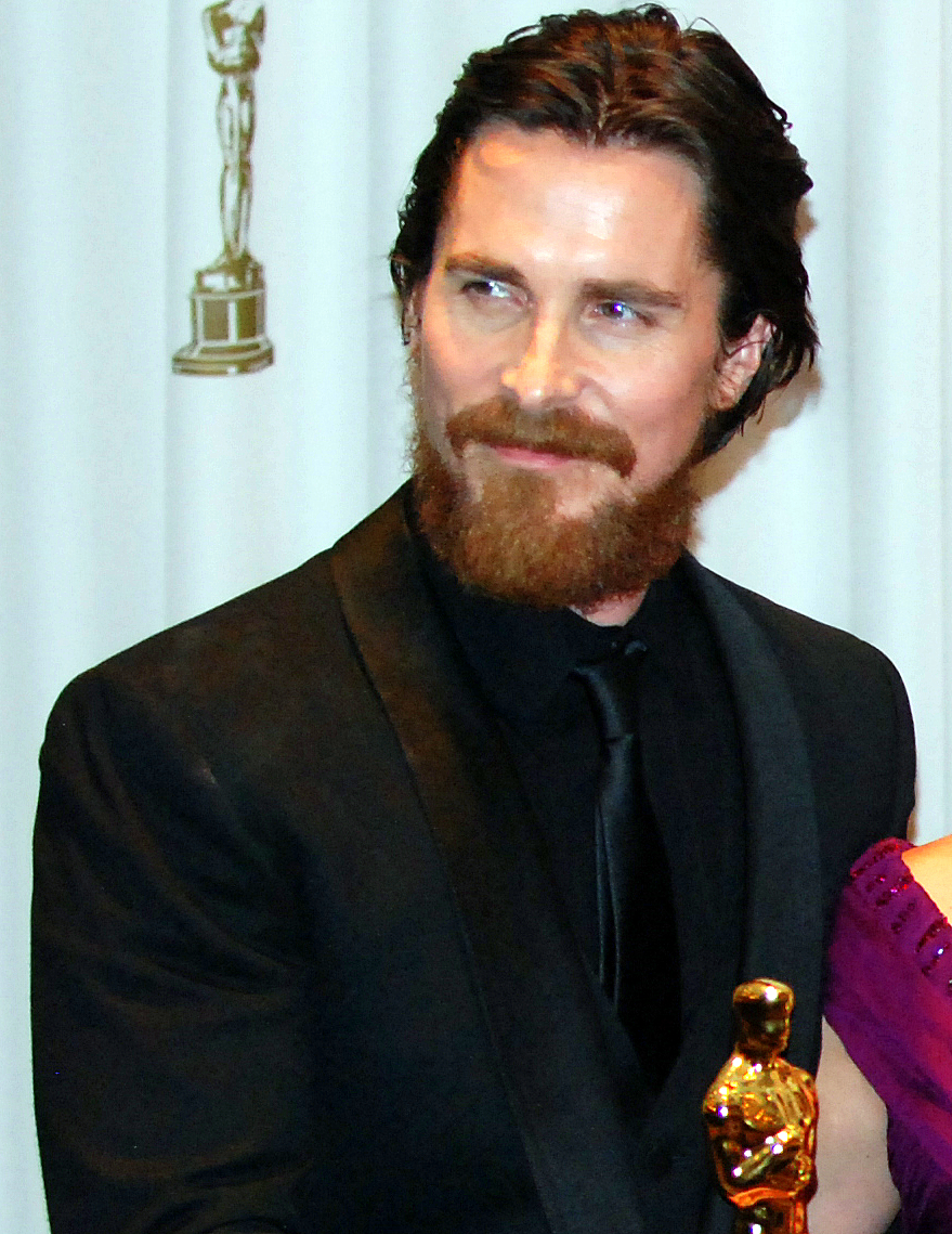 Oscar Winners Christian Bale at the 83rd Academy Awards Feb. 27, in Hollywood, Calif.